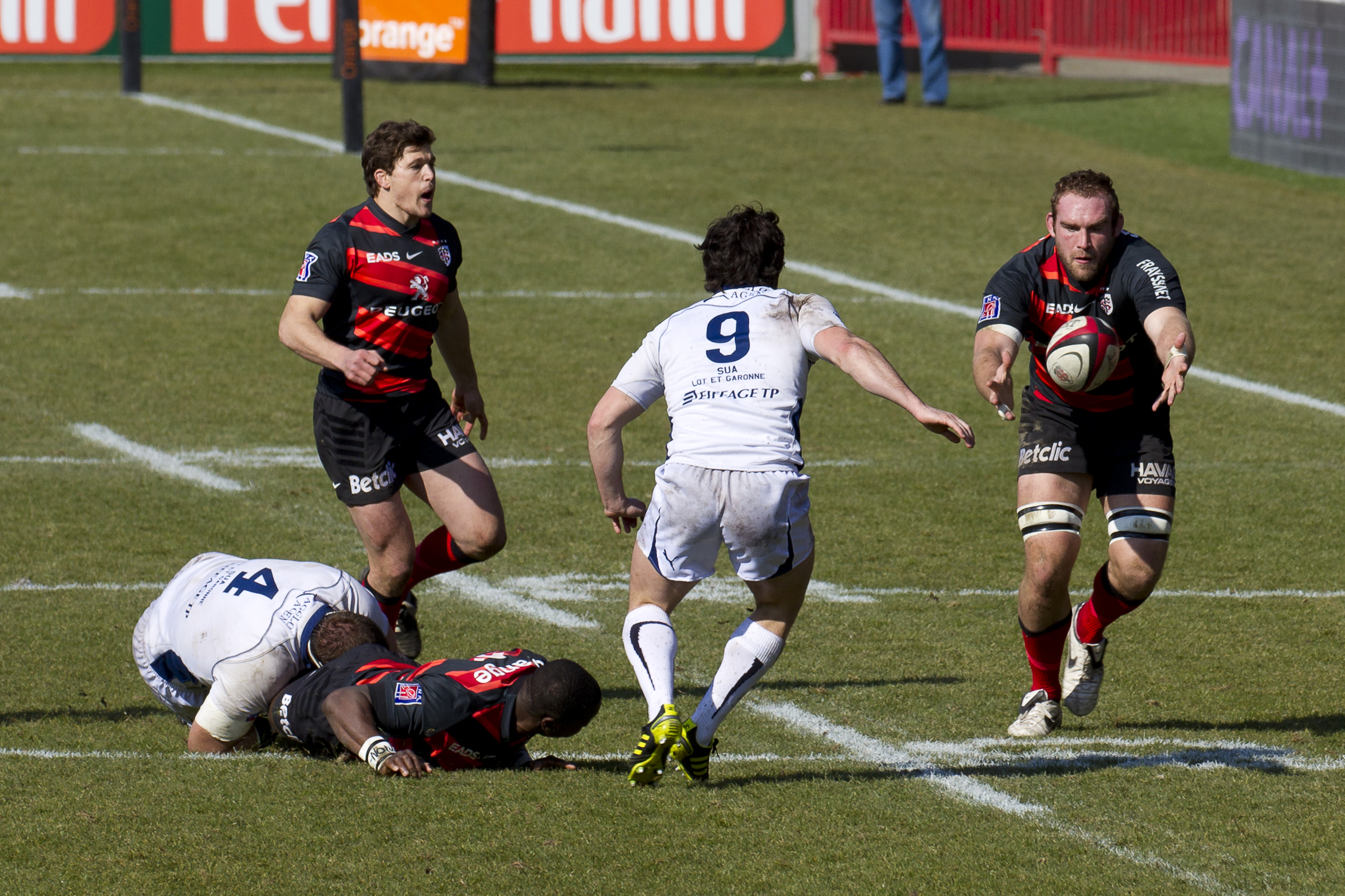 Yves Donguy offlaods the ball to Romain Millo-Chuski after being tackled.